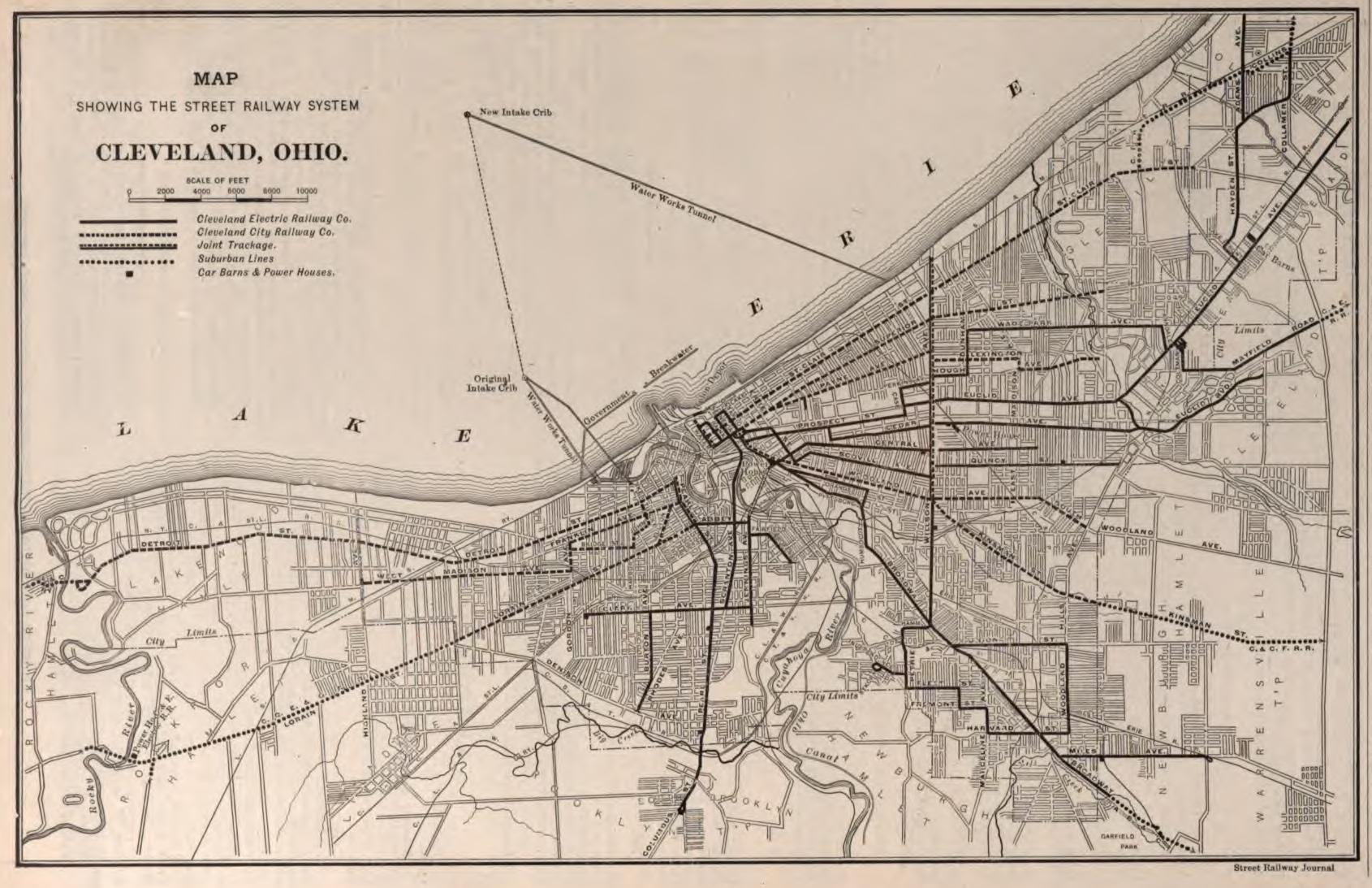 Taken from McGraw Electric Railway Manual published in 1901.